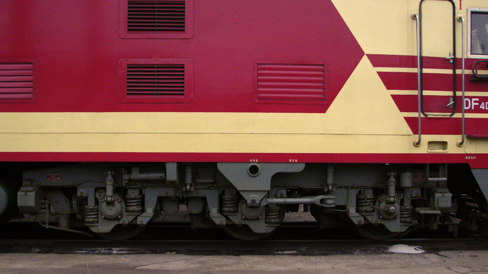 The bogie of a China Railways DF4D diesel locomotive.